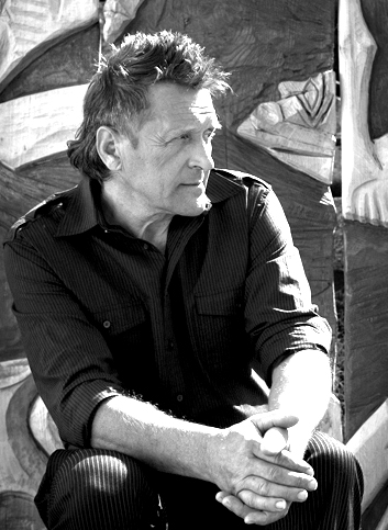 Portrait of Ryszard Zajac.Made in April 2009 by Dominika Zajac.